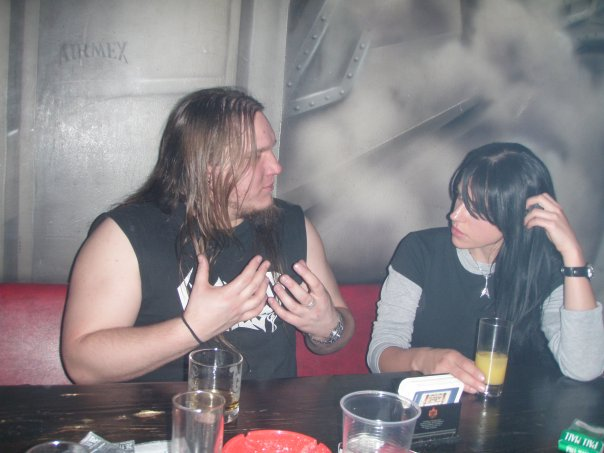 Laura G with Chris Keksgrinder in Berlin, Access Bar, circa 2009